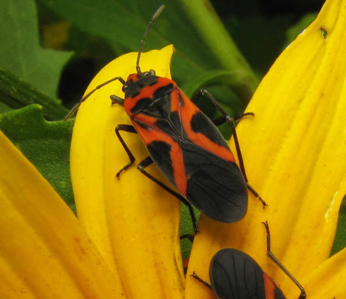 False milkweed bug, Lygaeus turcicus on Asteraceae flower Pennypack Restoration Trust, Montgomery County, Pennsylvania, USA.